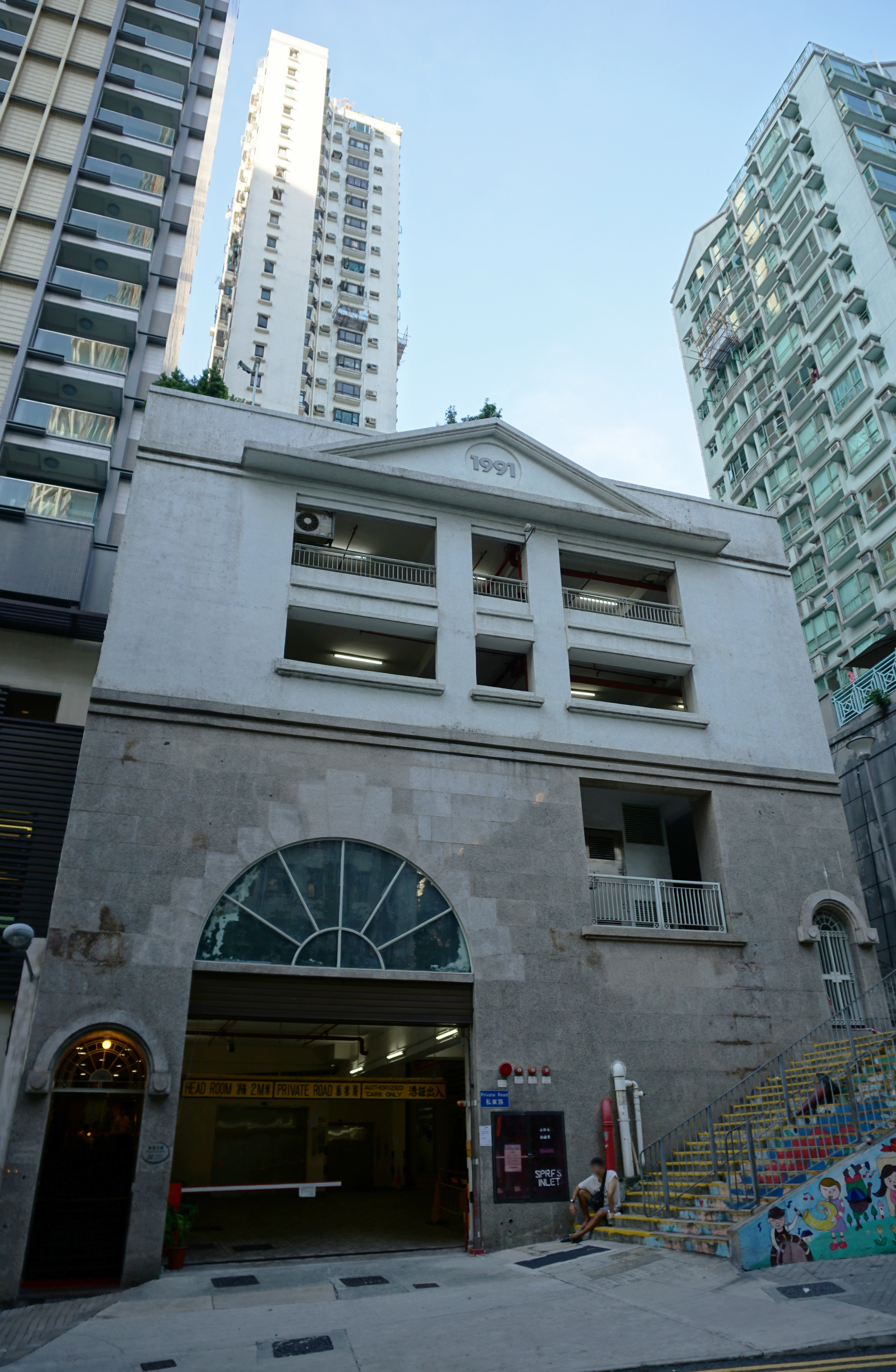 Ying Ga Garden in Kennedy Town, Hong Kong.